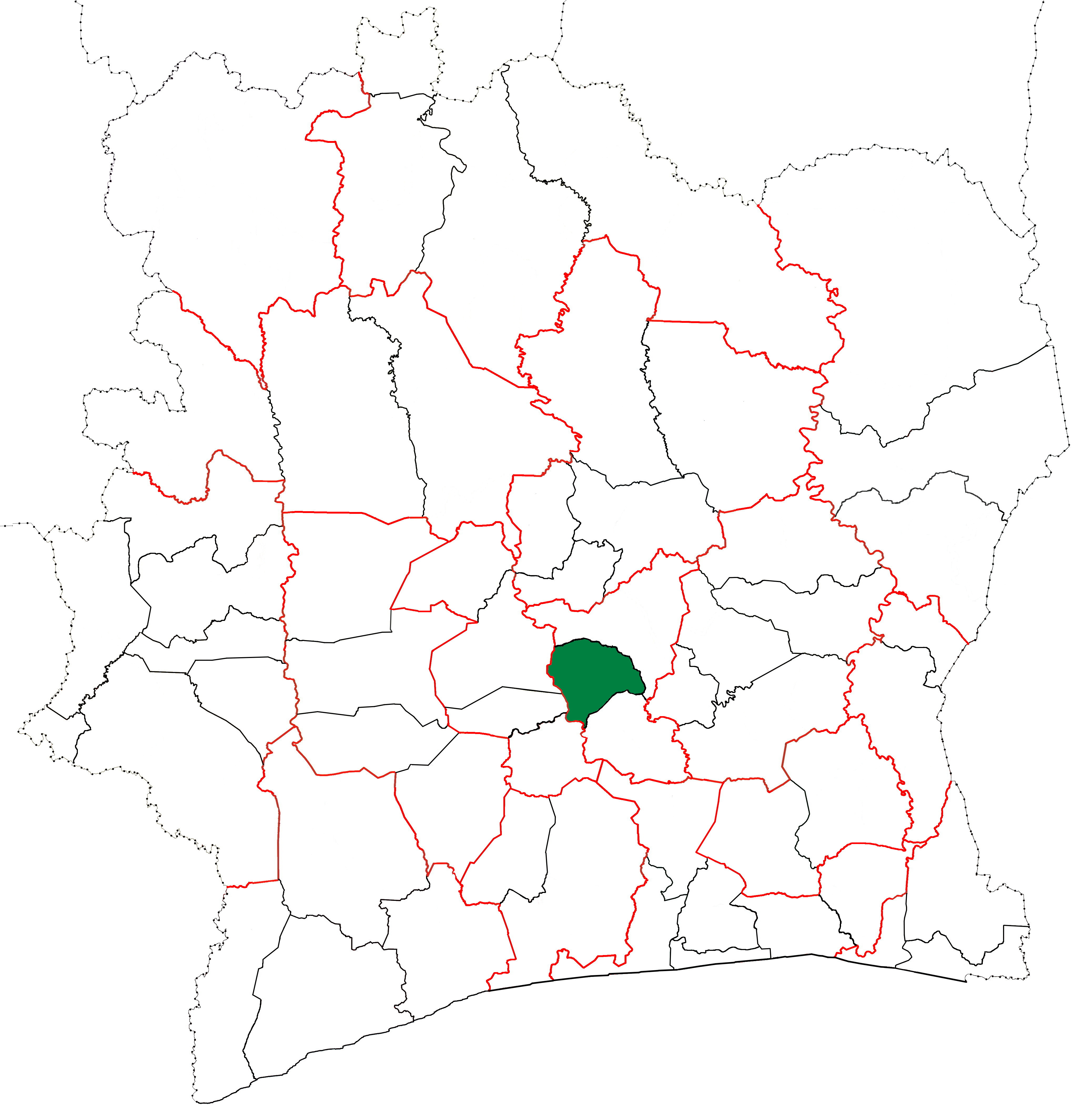 Locator map for Yamoussoukro Department in Côte d'Ivoire as it existed in 1998. Yamoussoukro Department kept these boundaries until 2009, but other boundary changes to subdivisions of Côte d'Ivoire began to be made in 2000.